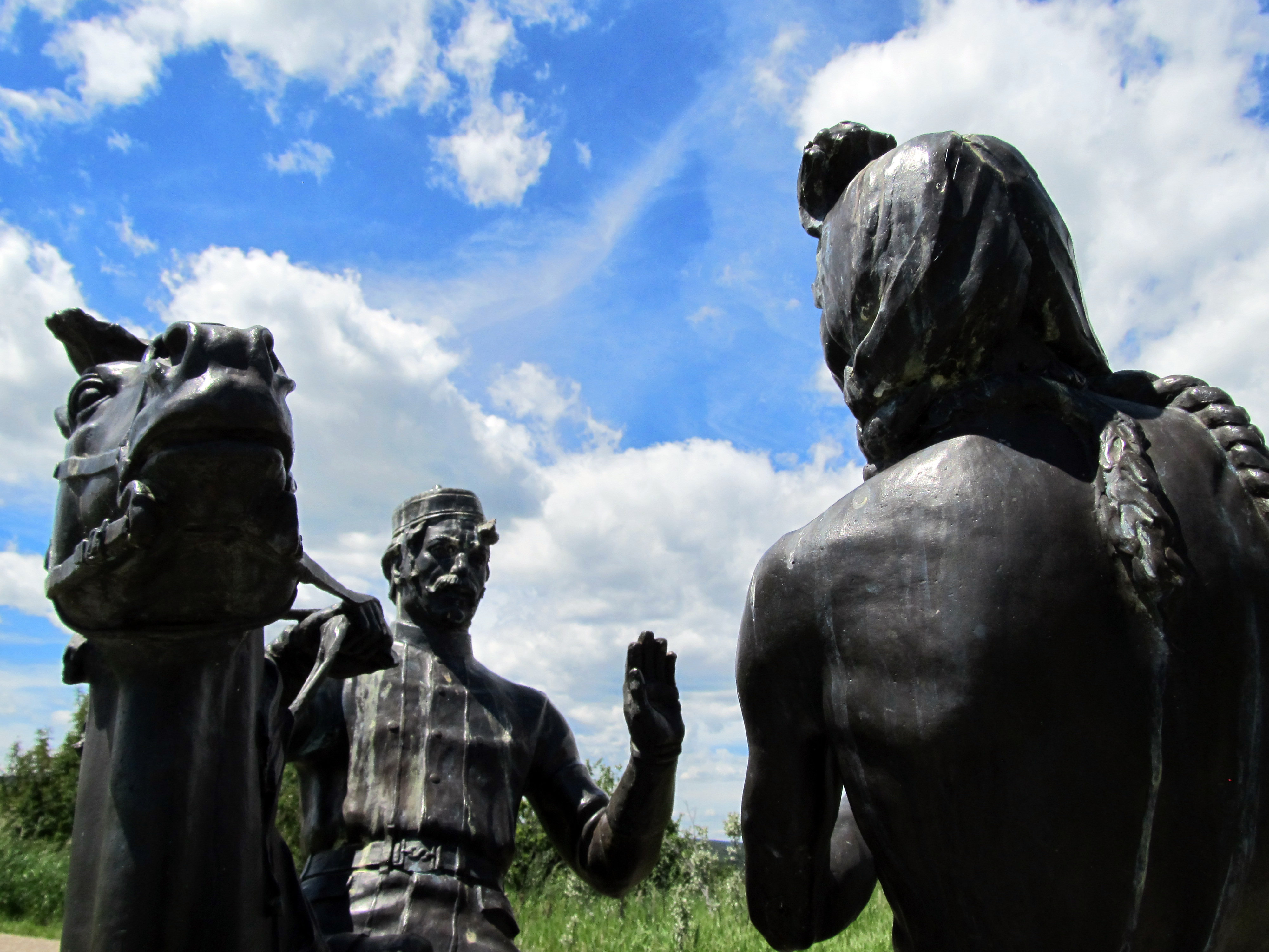 Statue of inspector Walsh and Sitting Bull, Saskatchewan, Canada This photo is in 2 alb